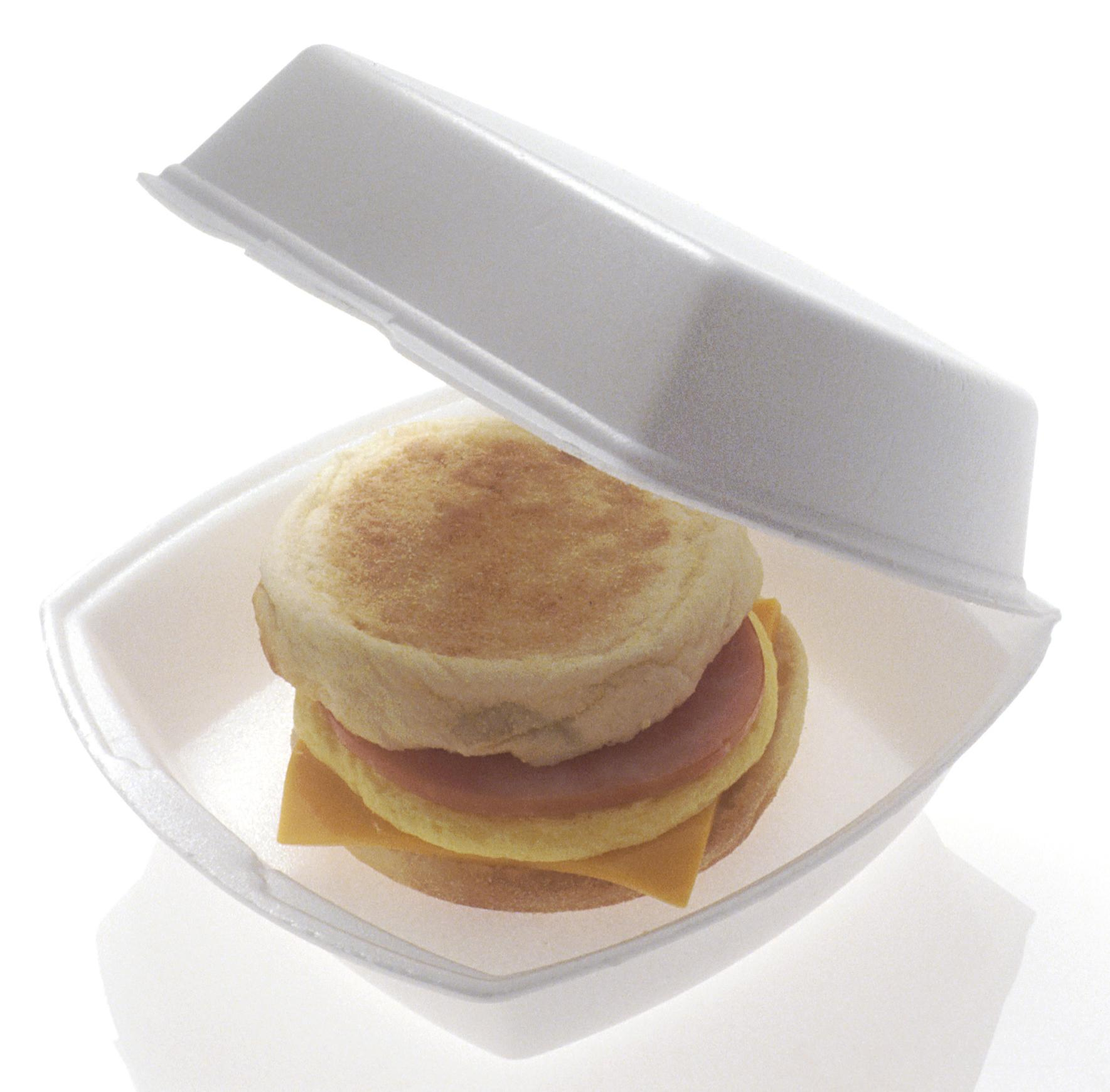 An egg sandwich on English muffin, sitting in a styrofoam container.